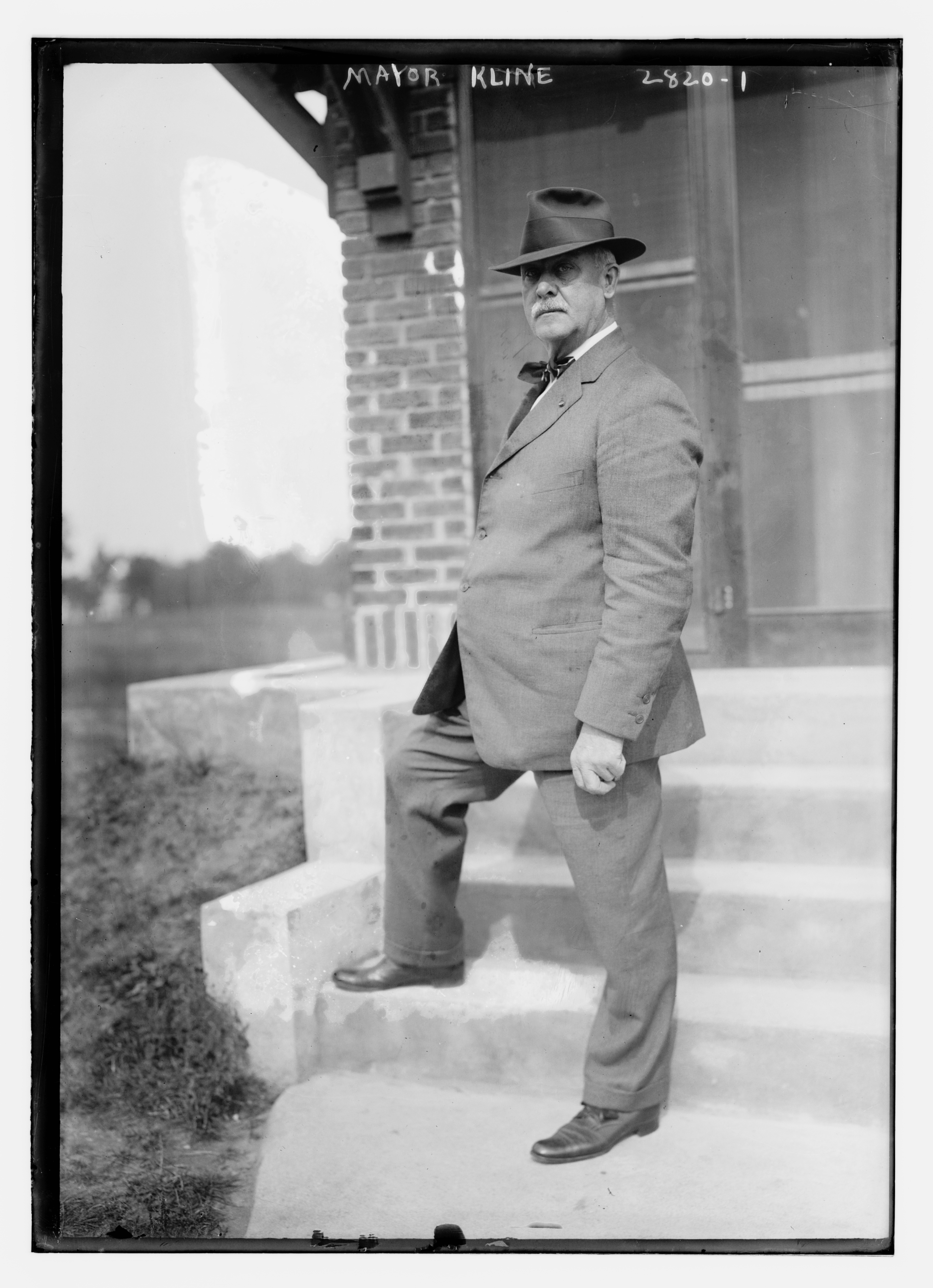 Bain News Service,, publisher. Ardolph Loges Kline in 1913 [between ca. 1910 and ca. 1915] 1 negative : glass ; 5 x 7 in. or smaller. Notes: Title from unverified data provided by the Bain News Service on the negatives or caption cards. Forms part of: George Grantham Bain Collection (Library of Congress). Format: Glass negatives. Repository: Library of Congress, Prints and Photographs Division, Washington, D.C. 20540 USA, General information about the Bain Collection is available at Persistent URL: Call Number: LC-B2- 2820-1